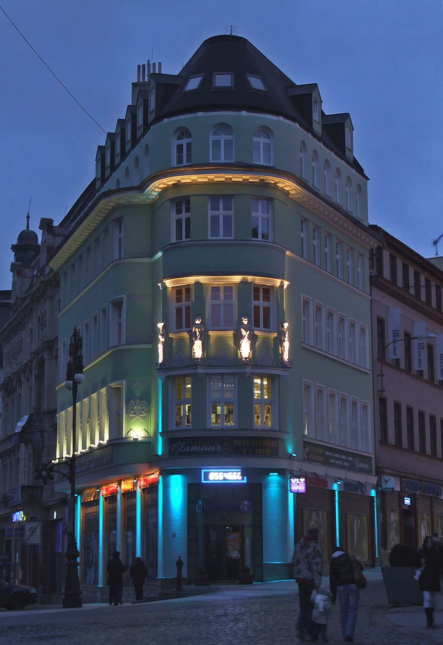 Building in Liberec by night